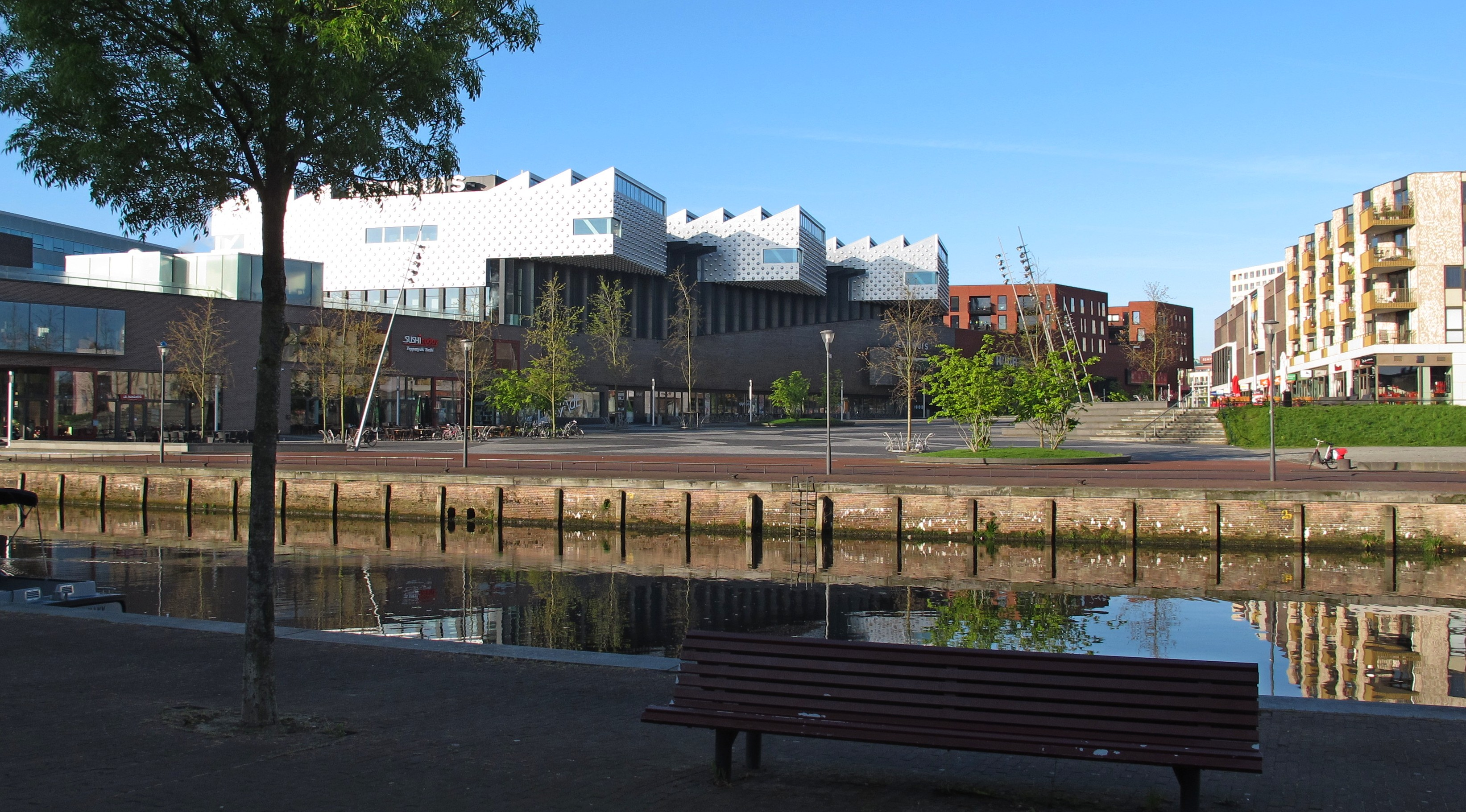 Eemplein Amersfoort - seen from Grote Koppel. In the front the river Eem